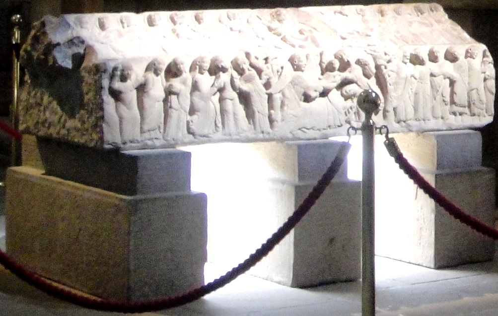 A sarcophagus of Blanca (Blanche) Garcés, Queen of Castile